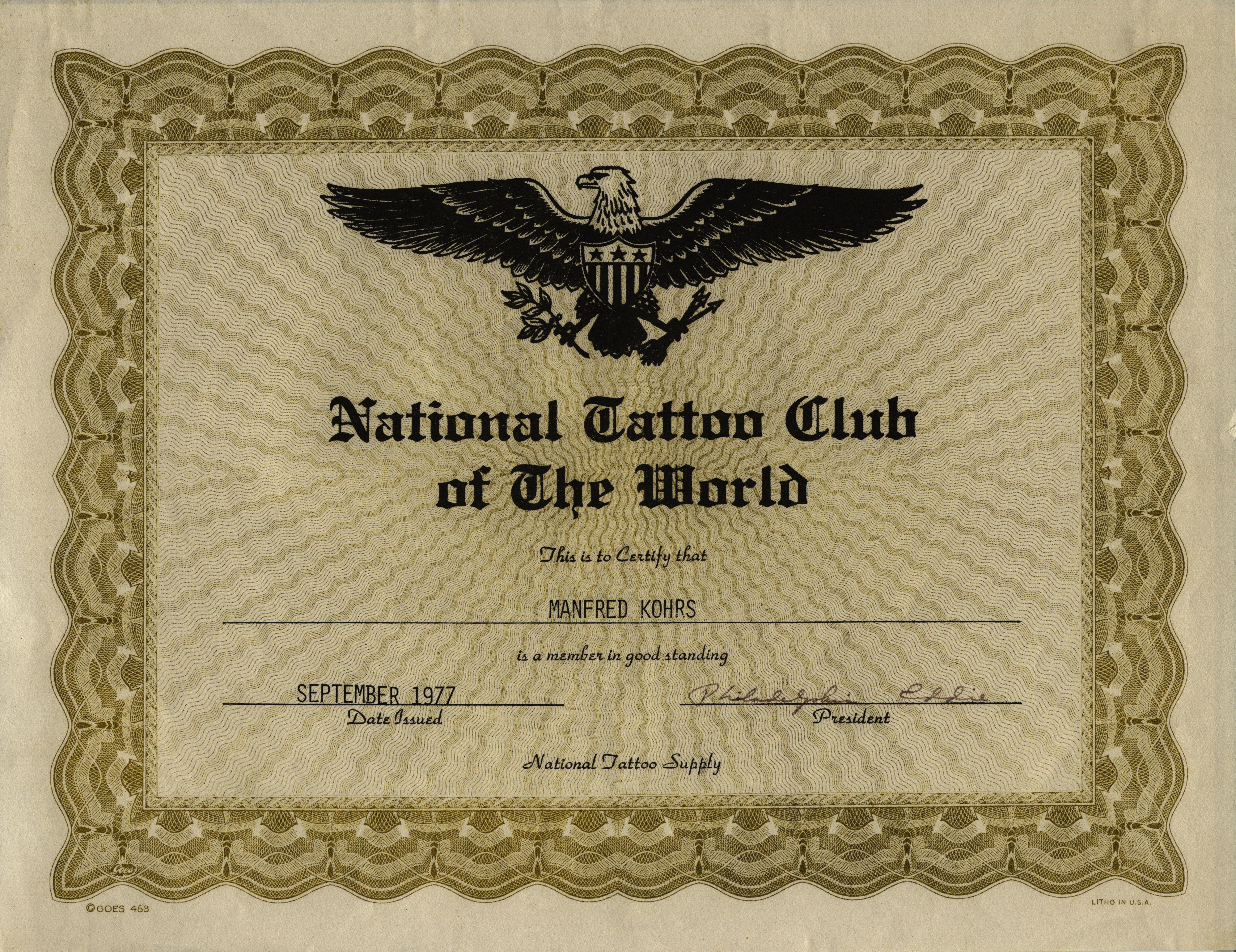 Member's document of the National tattoo club of the World, issued by "Philadelphia" Eddie Funk, in 1977.